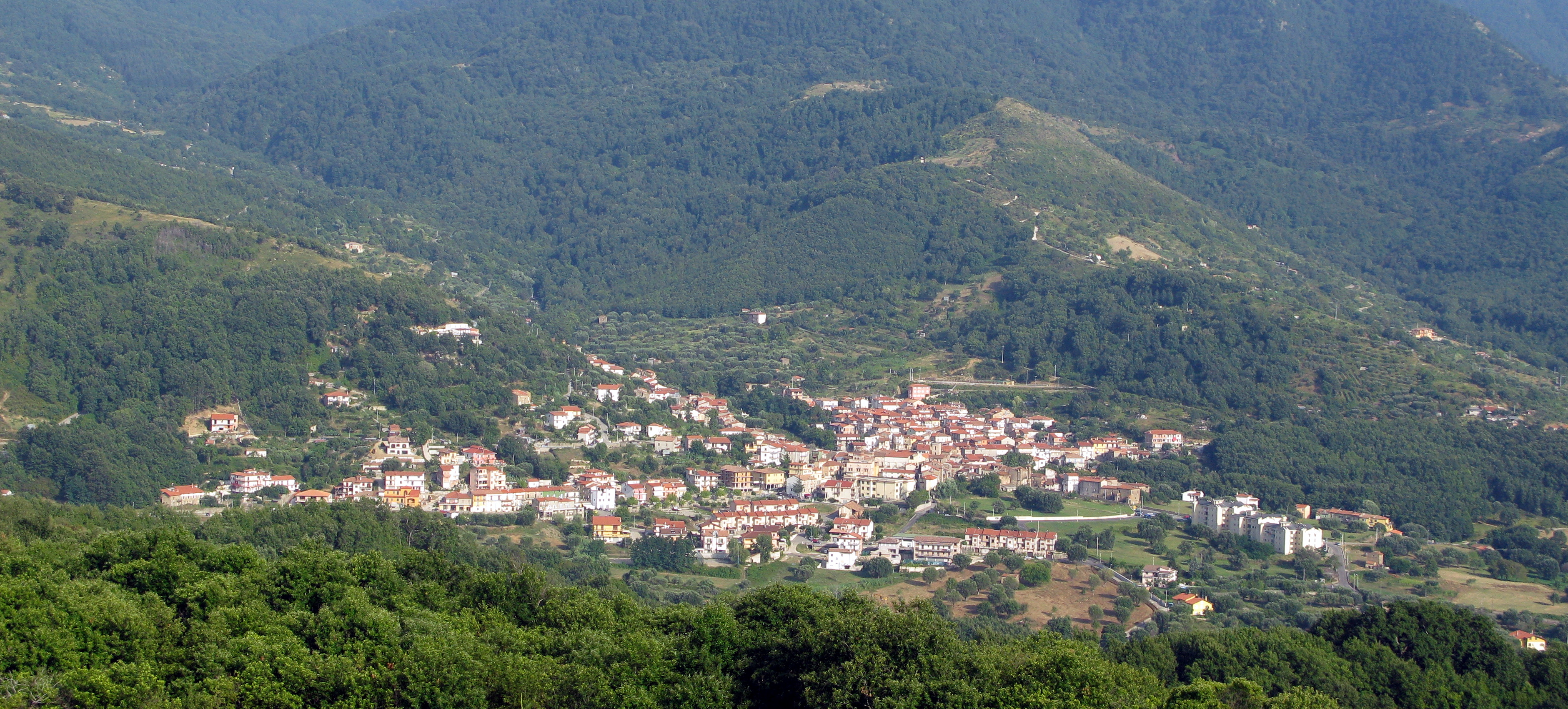 The commune of Cannalonga (SA) Italy